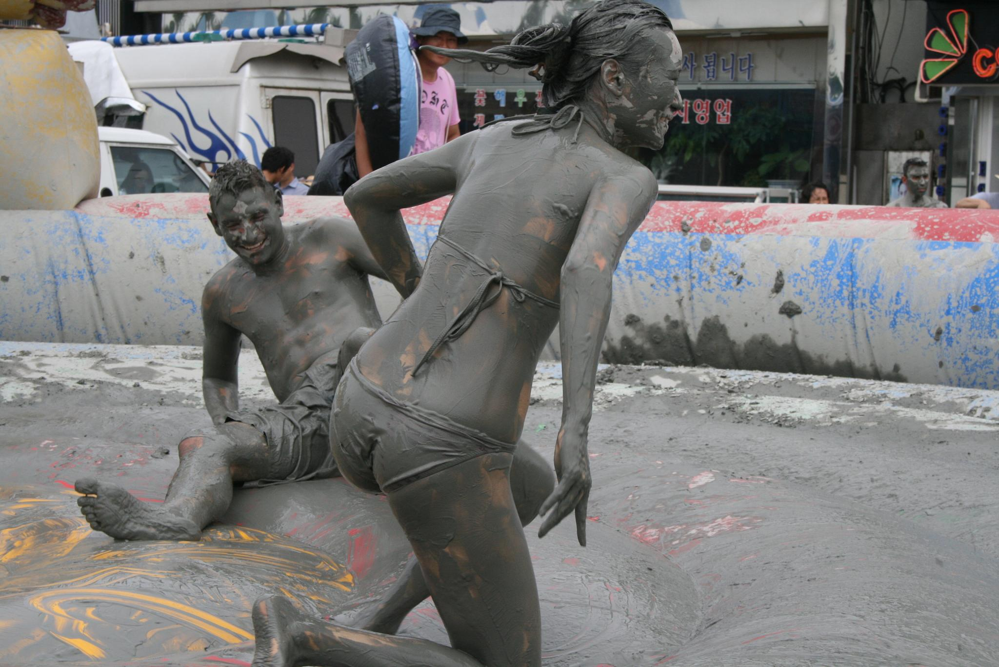 Mud Fest . Revisited